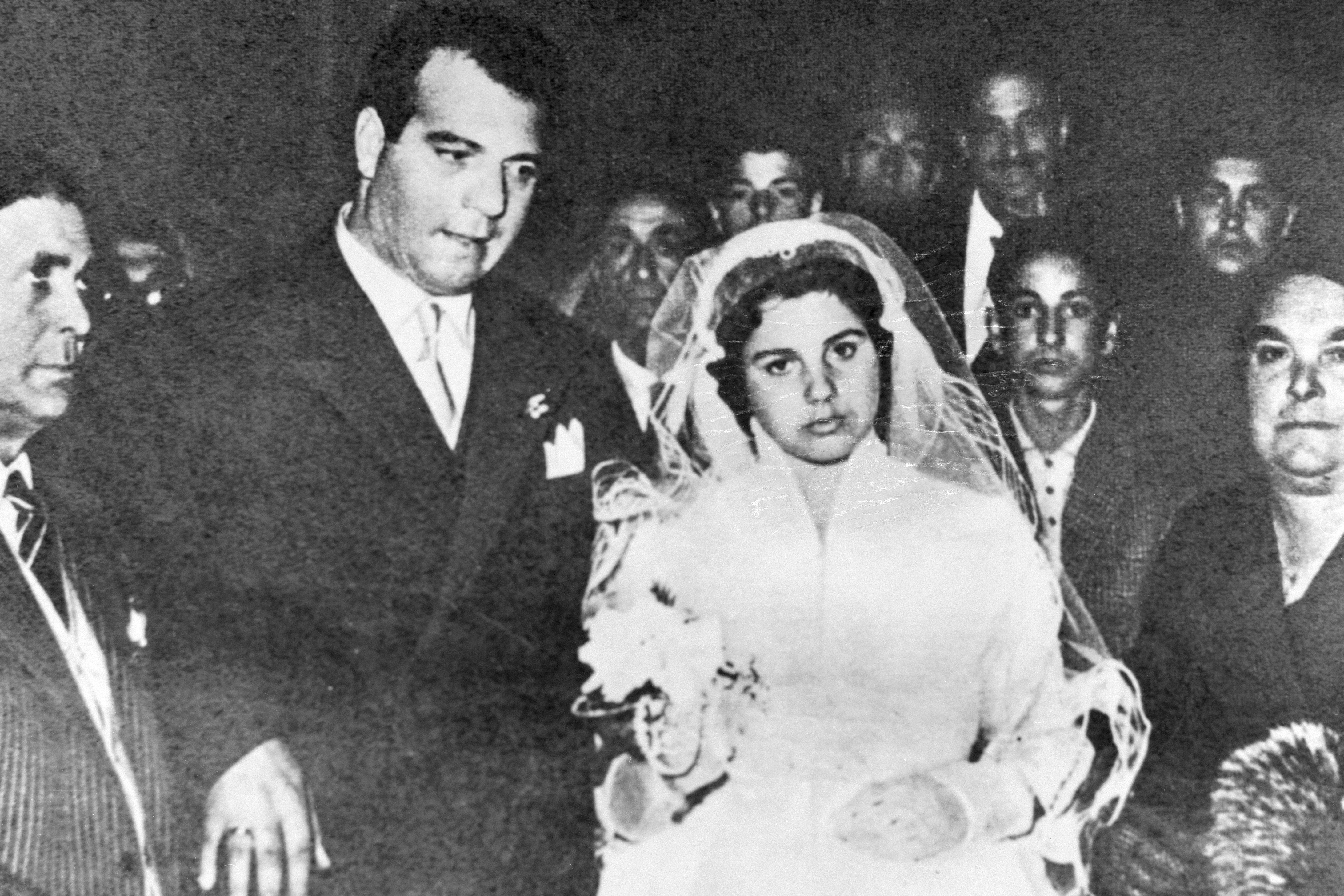 This is the wedding photo of Pupetta Maresca with her husband, Camorra boss, Pasquale Simonetti. It was taken on 1954.